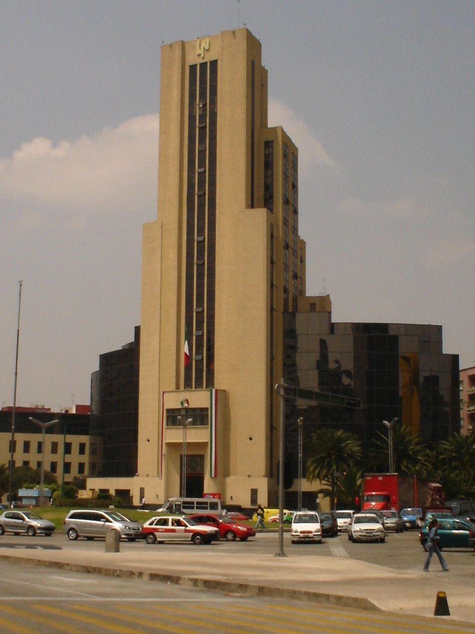 oficinas centrales de la loteria nacional de Mexico.